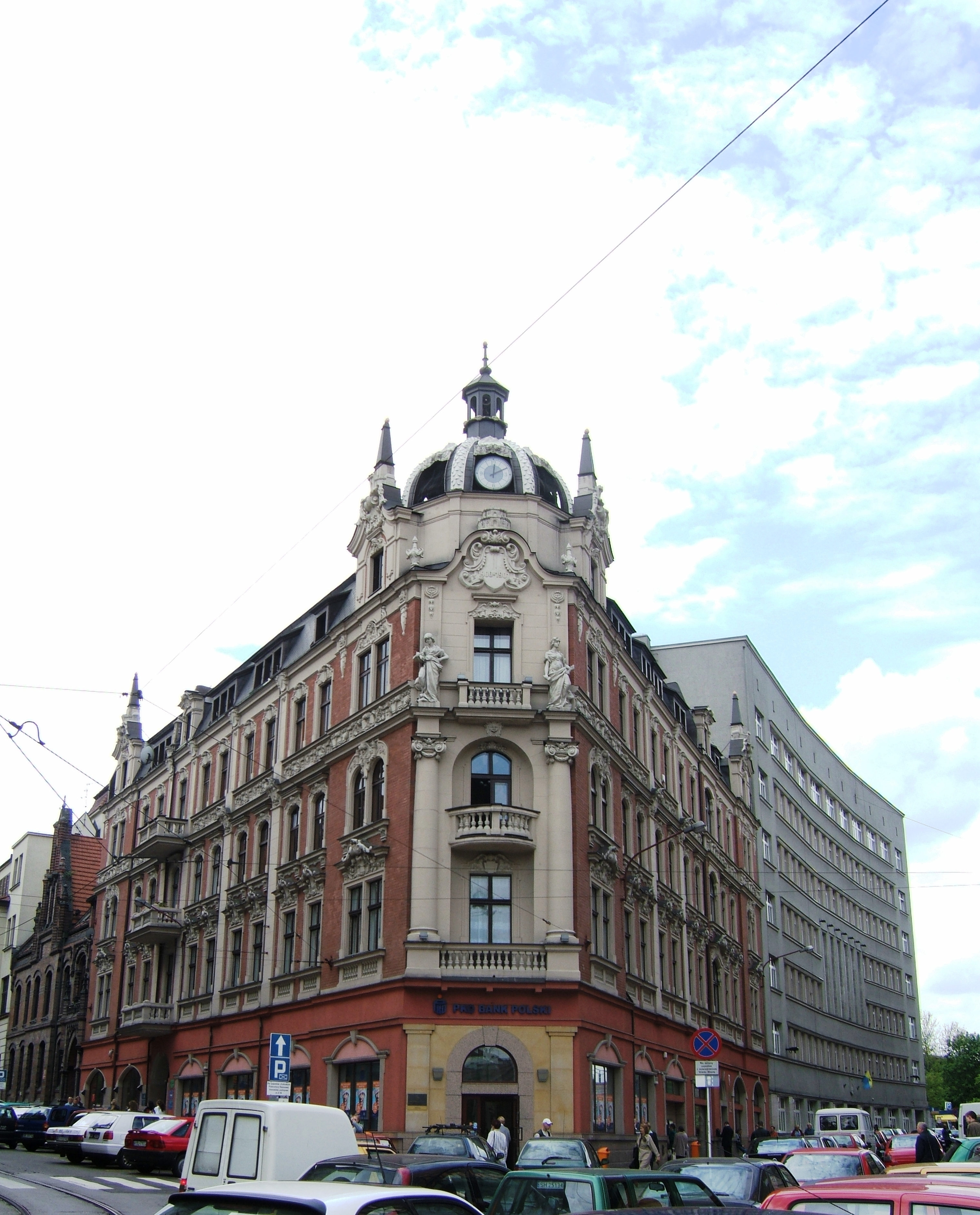 A corner building in Katowice at the Rynek. It was built from 1900 to 1901 in Neorenaissance stile, today it is used as a bank of PKO.